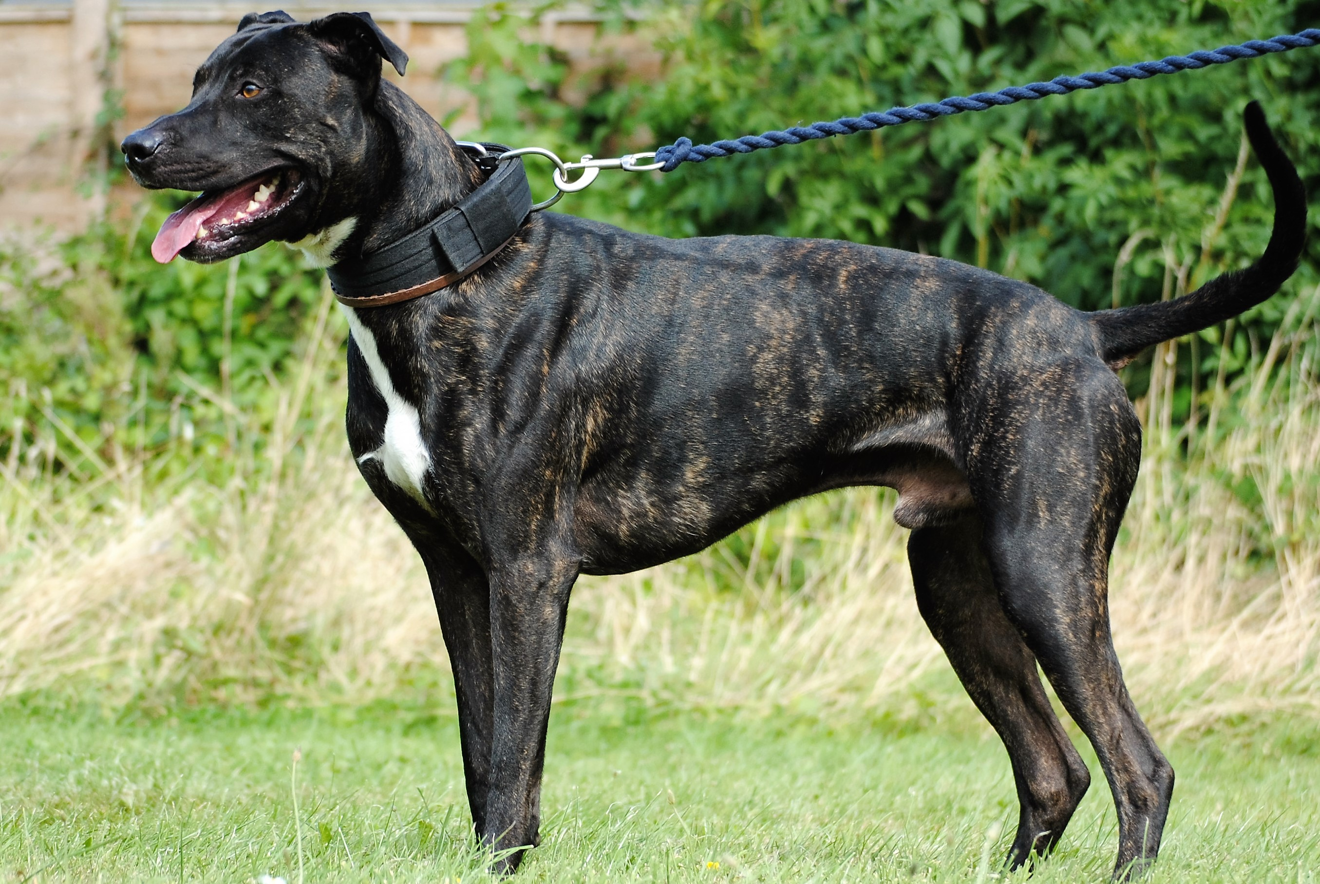 British Alaunt